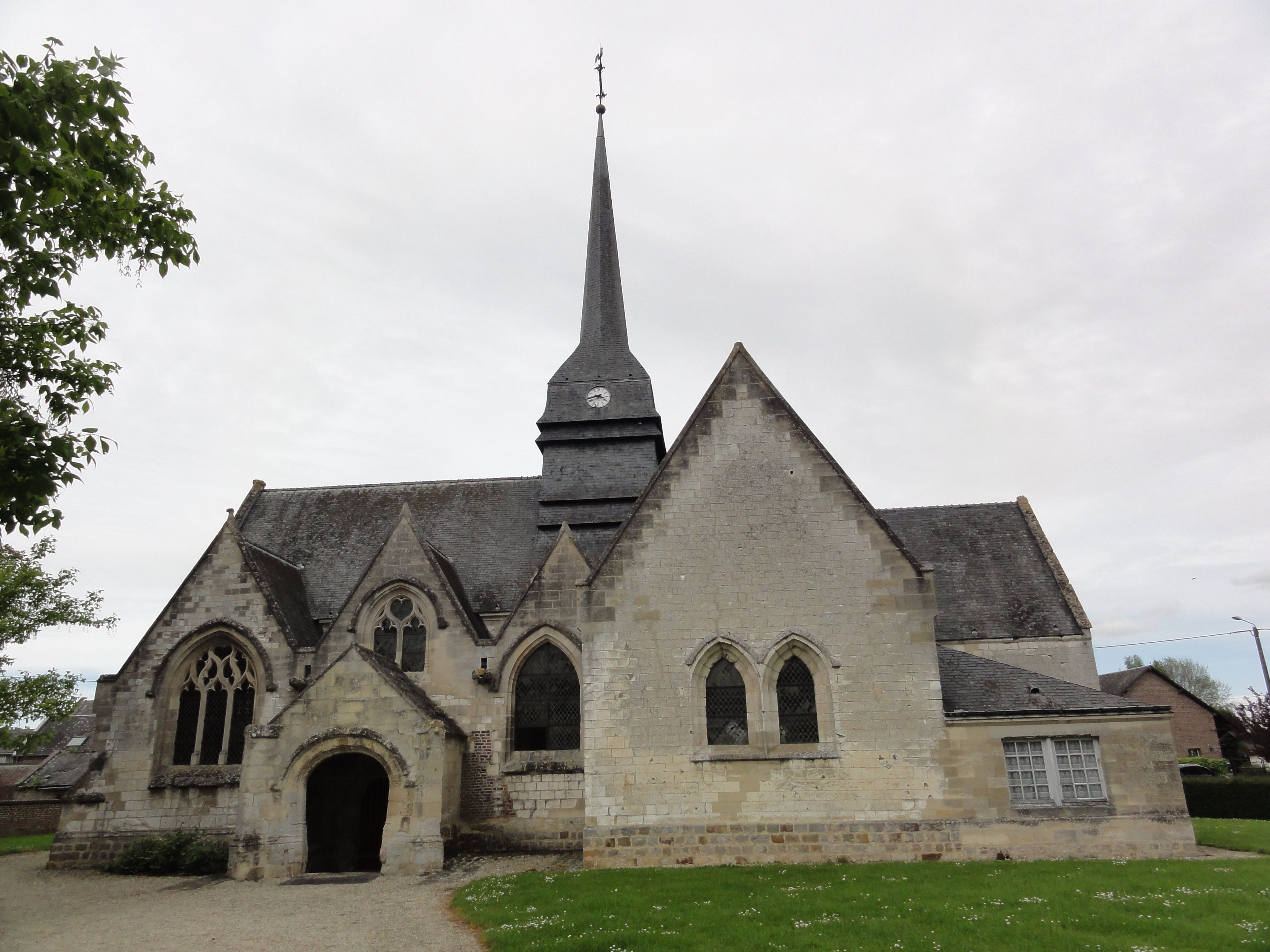 Nouvion-le-Comte (Aisne) église